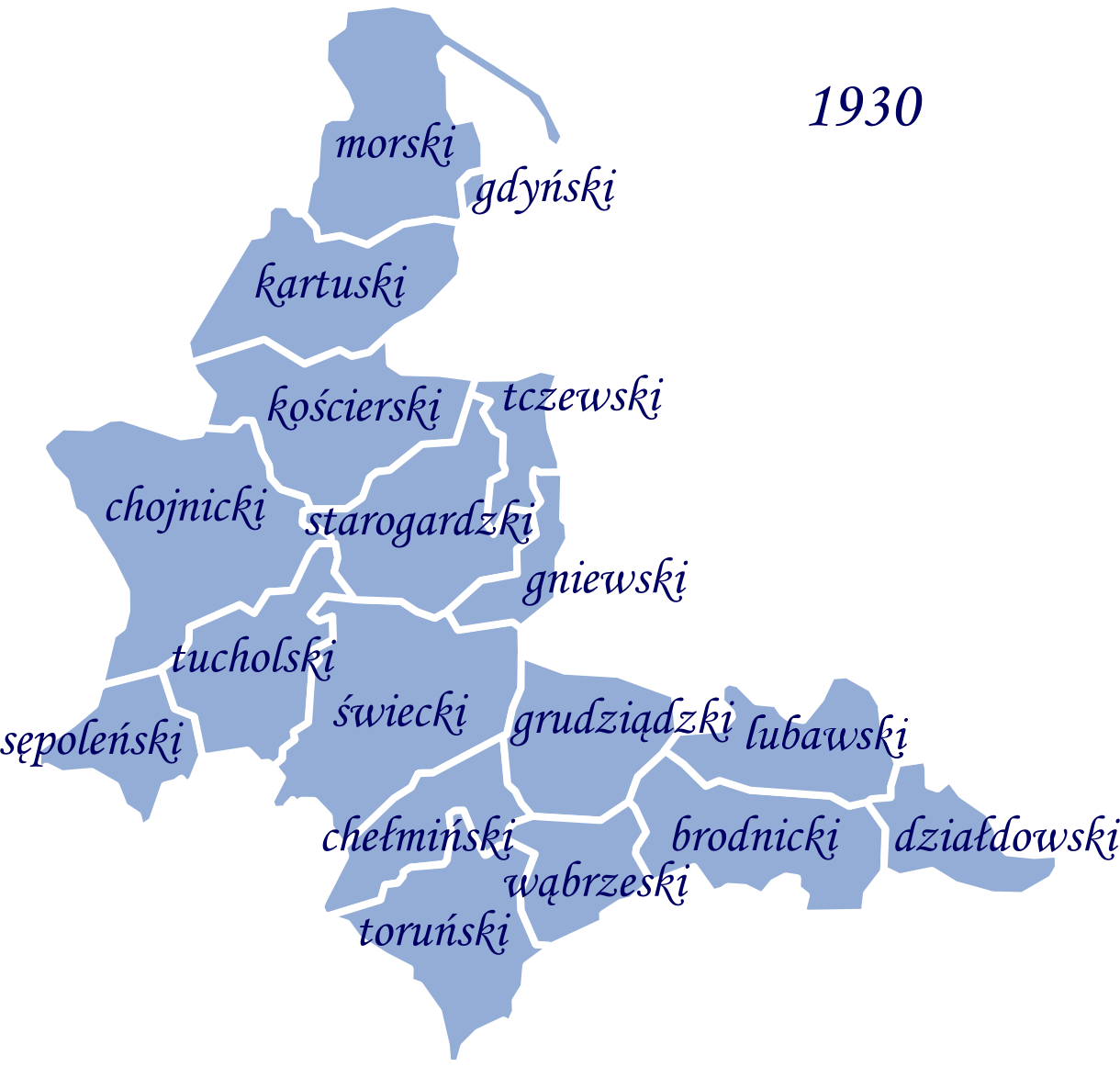 based on